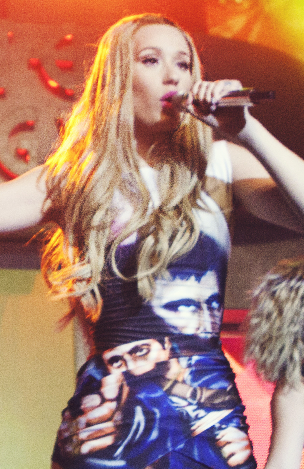 FOR USE